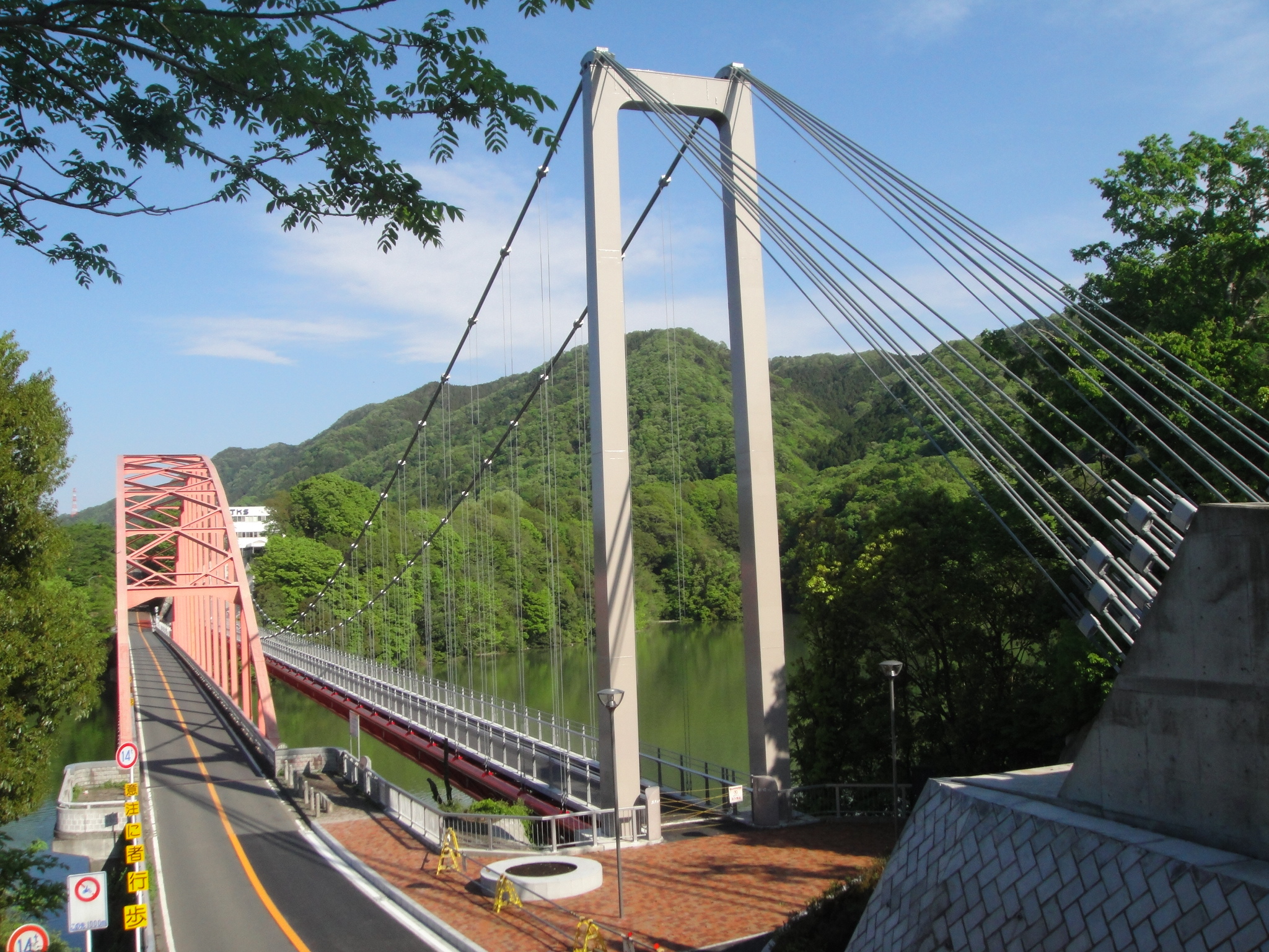 Mii-ohashi-Bridge and Mii-soyokazebashi-Bridge in Kanagawa,Japan